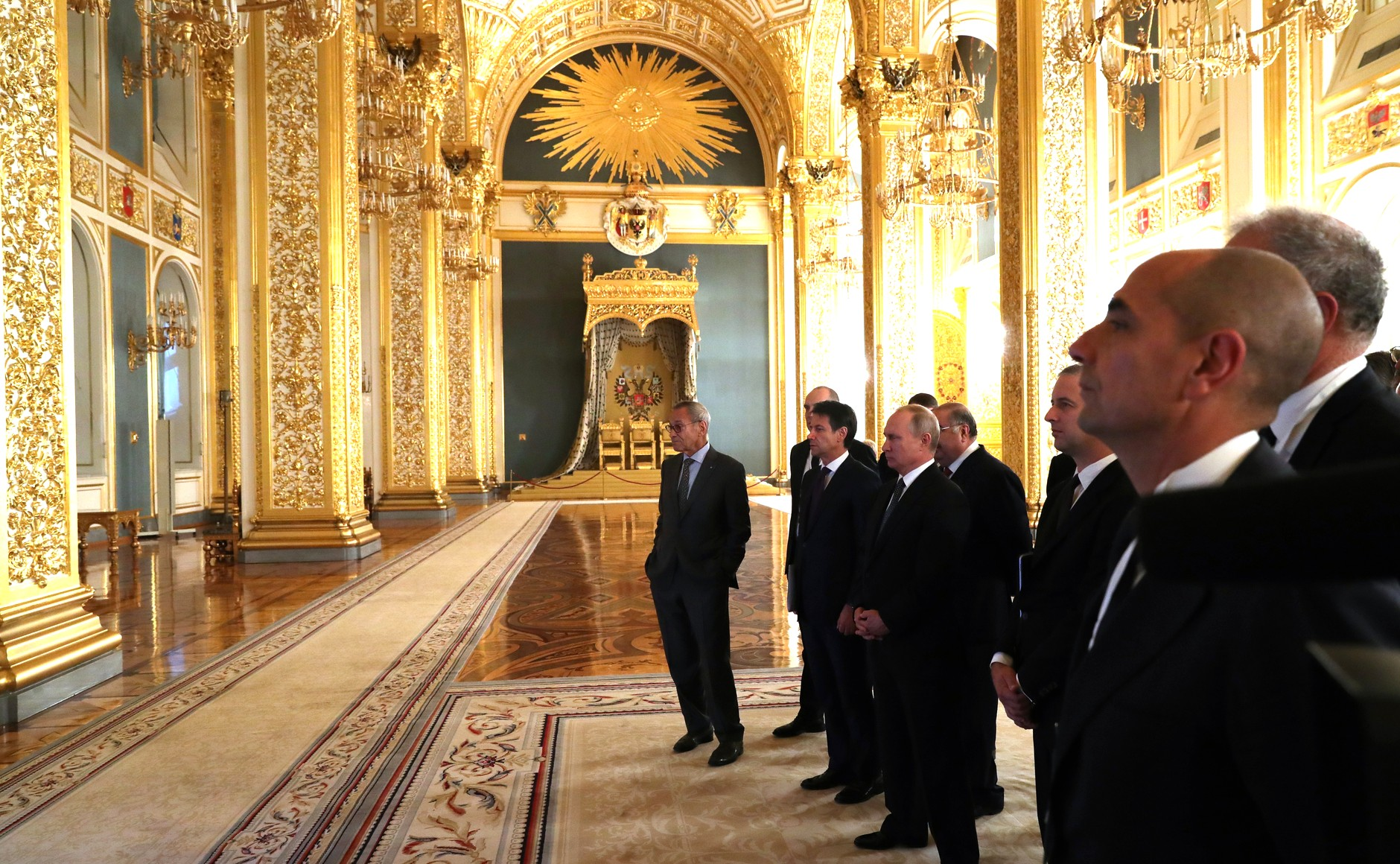 Vladimir Putin and Prime Minister of Italy Giuseppe Conte watched a new Russian-Italian film Sin, presented by its director Andrei Konchalovsky.